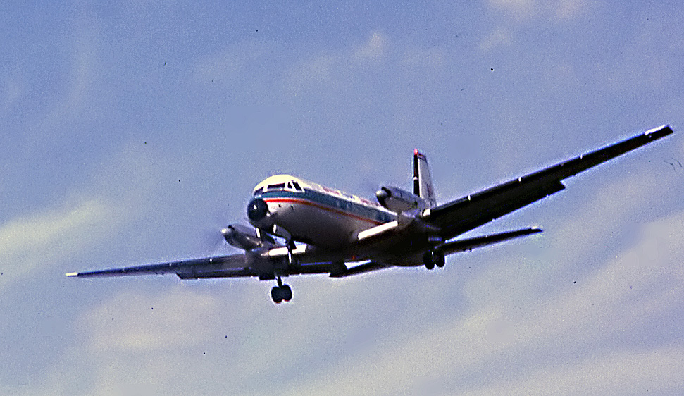 Dan Air HS748, Bournemouth, 1972